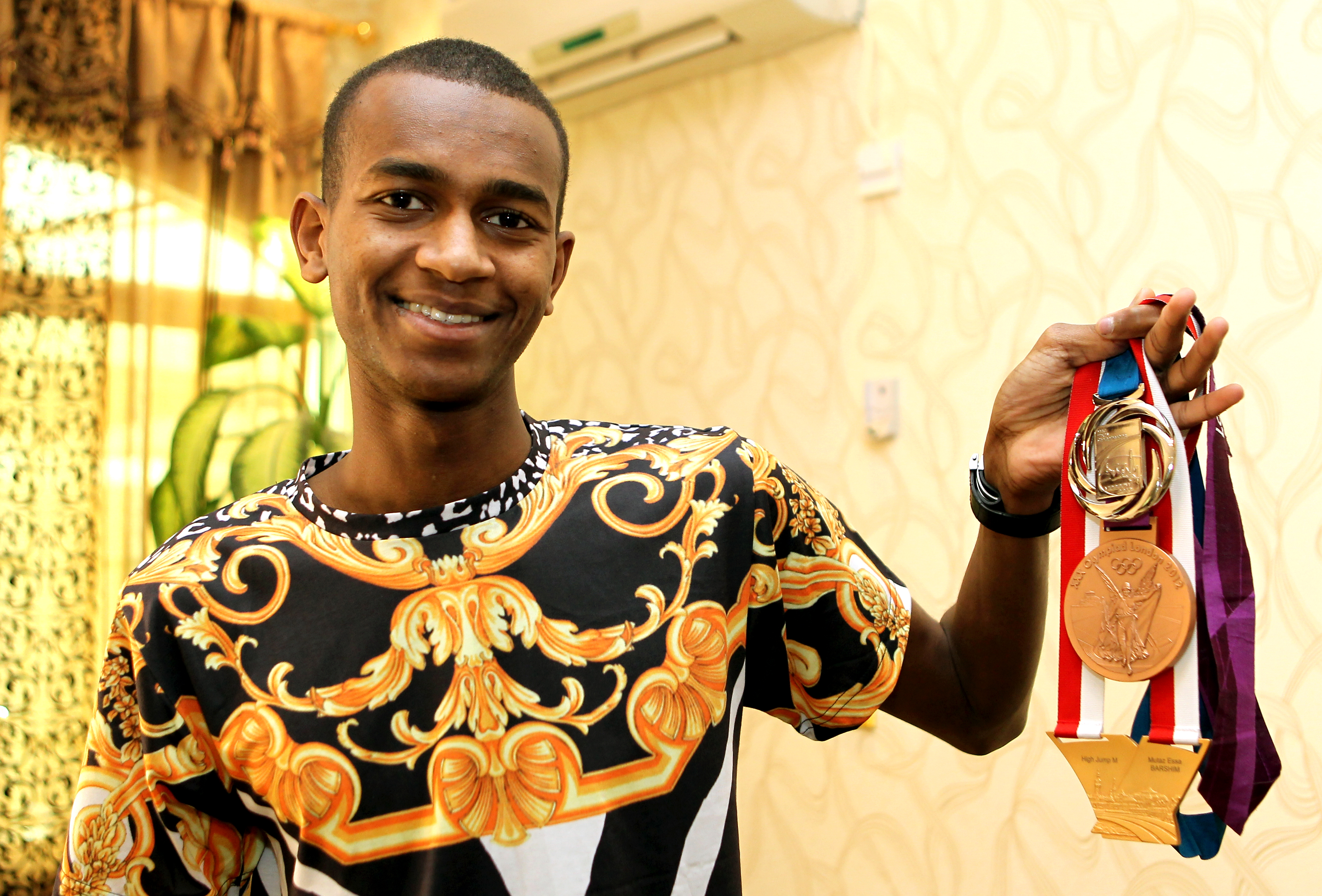 Qatar's ace high jumper and IAAF World Indoor Championship gold medallist Mutaz Essa Barshim displays his medals in Doha. Pic by Mohan